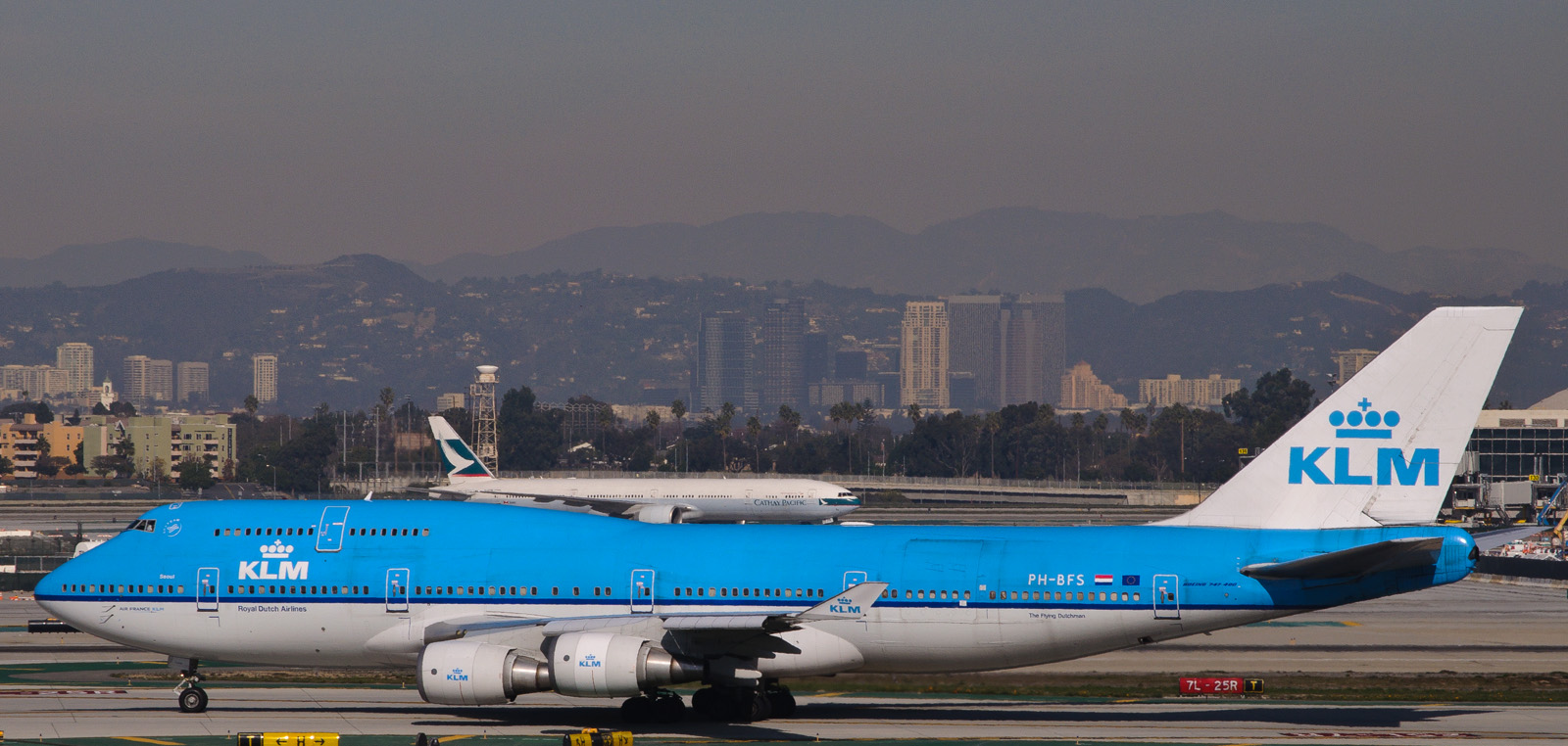 Some planespotting for the very first weekend of 2013 - in anticipation of seeing the new United 787 services to/from Tokyo. (And I was far from alone - plenty of hardcore planespotters, all of male middle-aged persuasion except for yours truly.) KLM 601 arrives from Amsterdam. KLM 601 is usually the first European flight to arrive in Los Angeles each day, about midday. KLM loves its Boeing 747 Combis, as seen with this example. KLM named its 747s after some of its international destinations, and this one is named after Seoul. And KLM used to be known for keeping its planes very clean - but that obviously is no longer the case, now that it is part of Air France, an airline notorious for dirty planes. In the background, a Cathay Pacific 777 starts its taxi to return to Hong Kong. PH-BFS "City of Seoul," Boeing 747-400M (KLM) B-KPB, Boeing 777-300ER (Cathay Pacific)